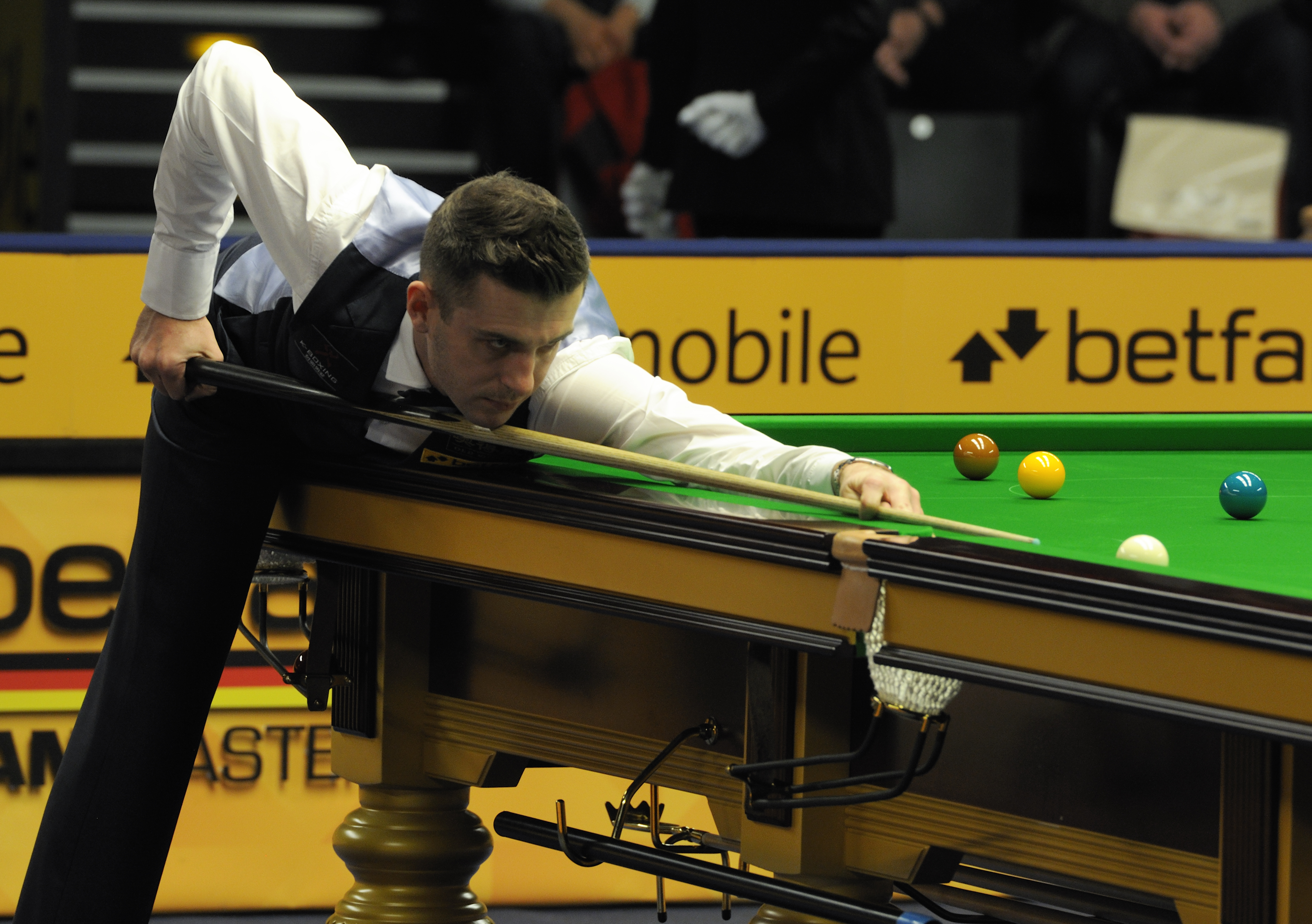 Picture taken in Berlin during the Snooker German Masters in 2013. Mark Selby.